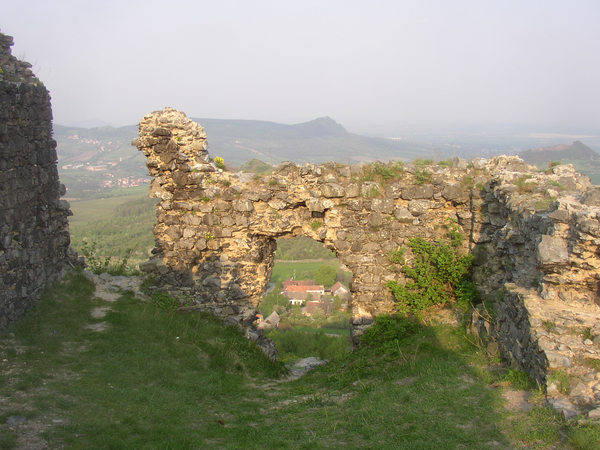 Castle ruin of Oltářík (Hrádek) in České středohoří Mts.. Interior of the tower.